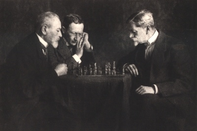 (Left to right) Unknown, Julius Eliasberg, Samuel Meyerson.